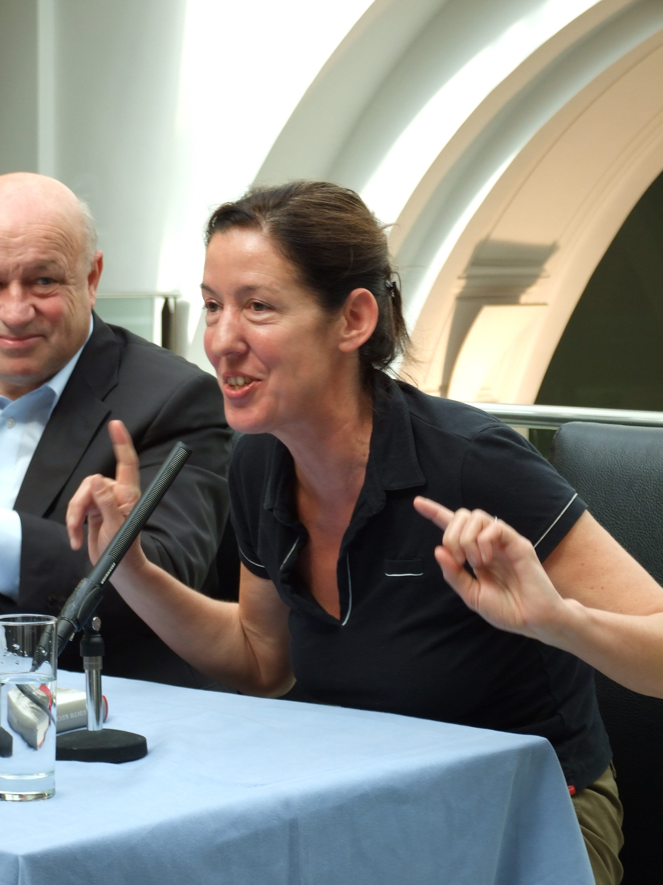 Judith Kuckart, during a reading at Frankfurt am Main, 2008